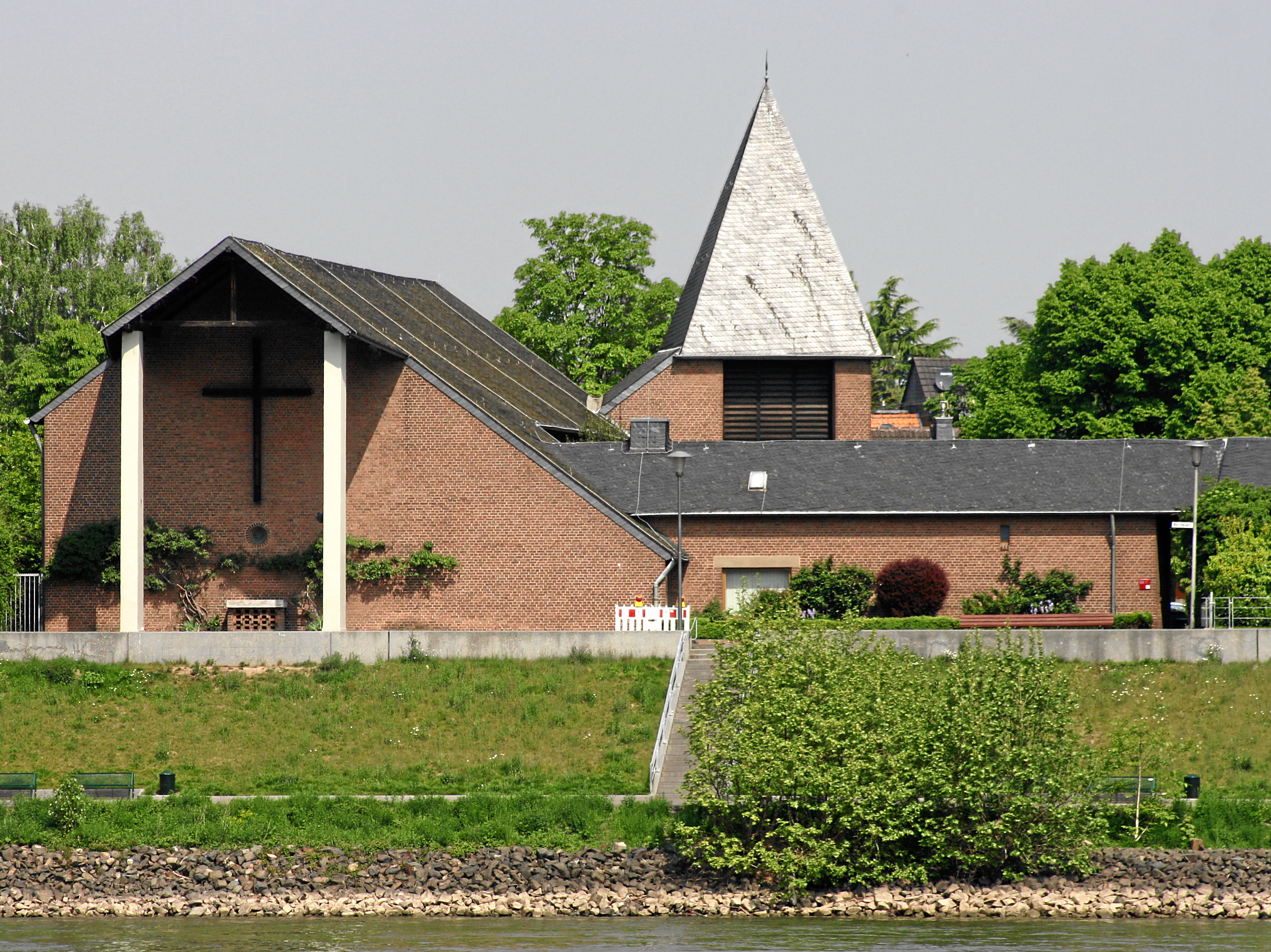 Köln-Weiß, Germany. Roman-catholic church Saint George, exterior view from South, across the Rhine.